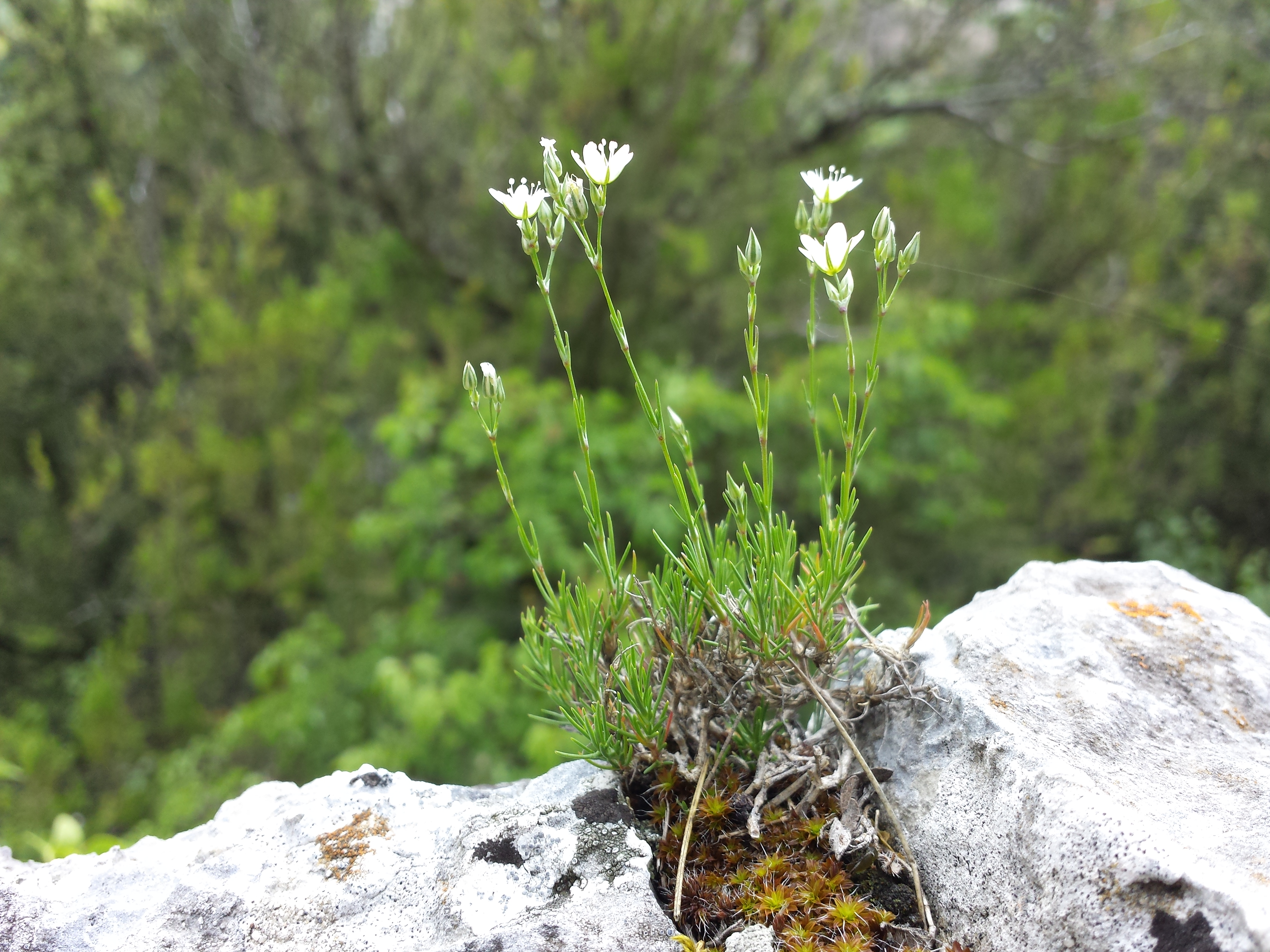 Habitus Taxon: Minuartia setacea (sensu Fischer et al. EfÖLS 2008 ISBN 978-3-85474-187-9; det. W. Adler 2014-05-30) Location: Staatzer Klippe, district Mistelbach, Lower Austria - ca. 300 m a.s.l. Habitat: stone wall This media shows the natural monument in Lower Austria with the ID MI-052.